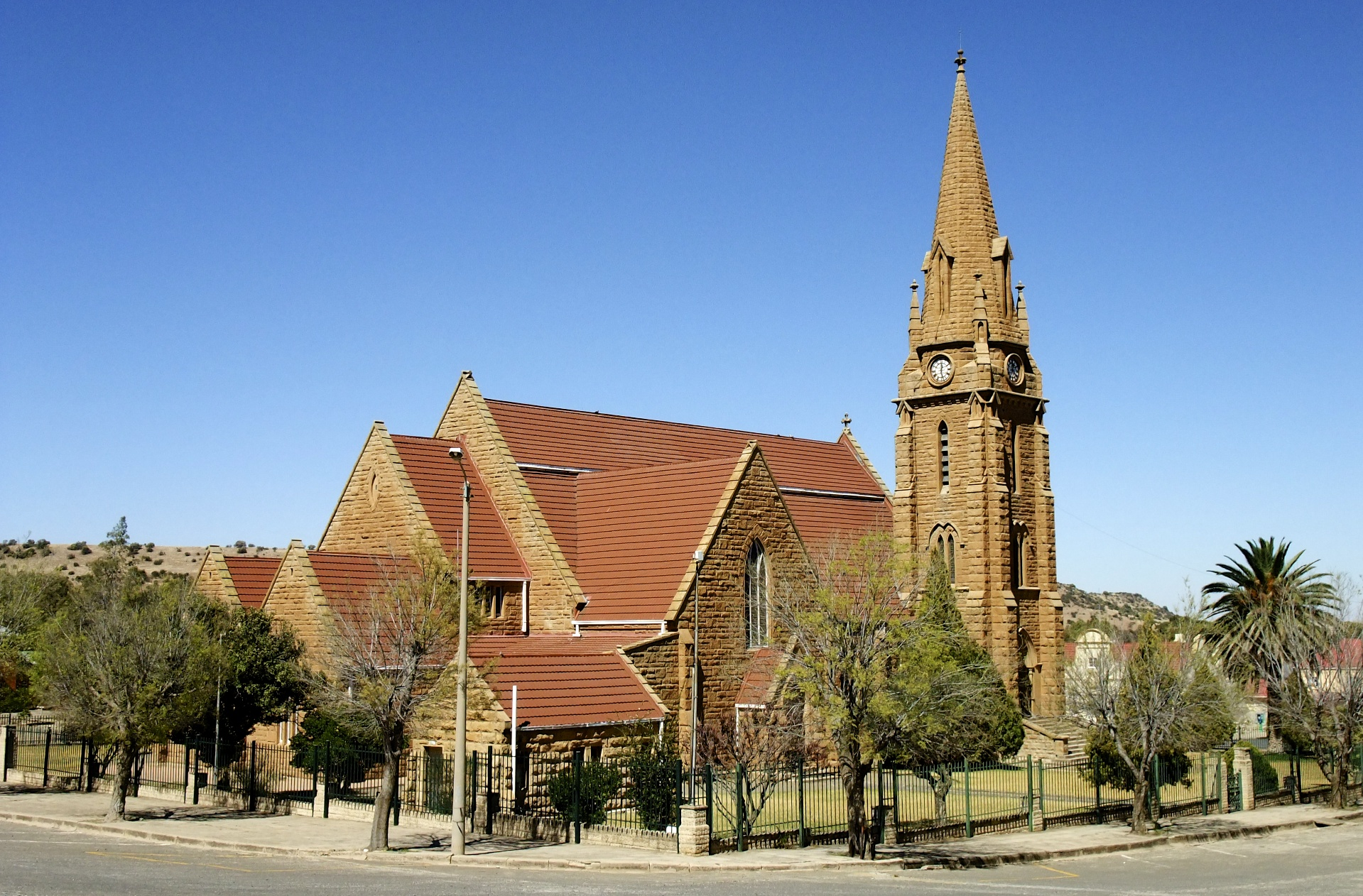 Dutch Reformed Church in Winburg, South Africa This media shows a South African Protected Site with SAHRA file reference 9/2/348/0001See also: External entry in South African Heritage Resource Agency database.